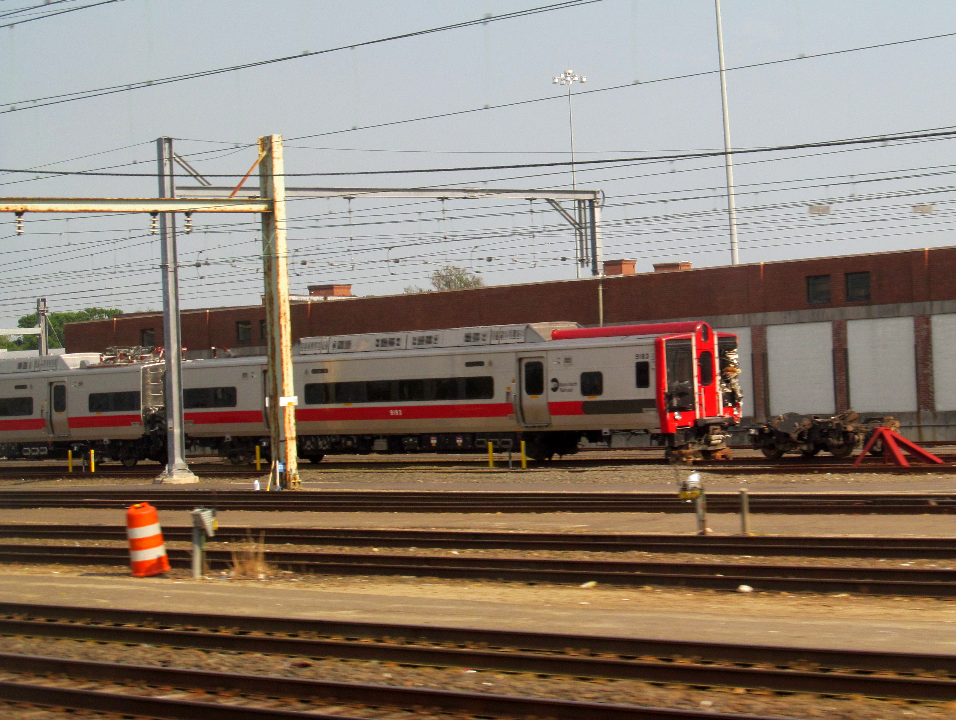 M8 car #9193 in MNRR's Bridgeport yard in May 2013. This car was damaged in the Fairfield trash crash of May 17, 2013.